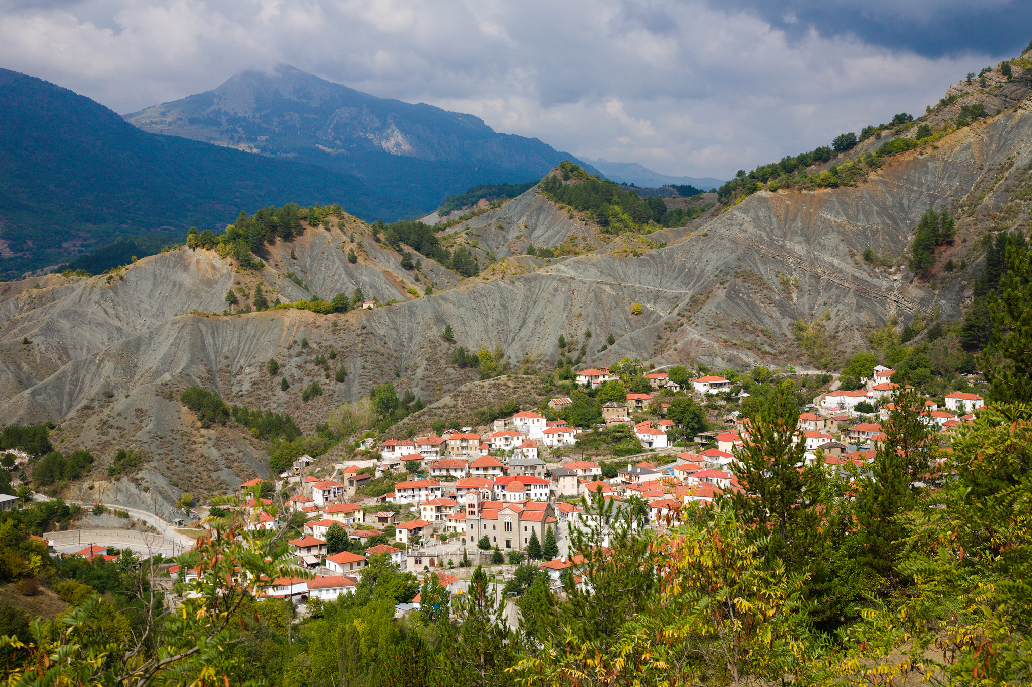 Eptahori village in Greece